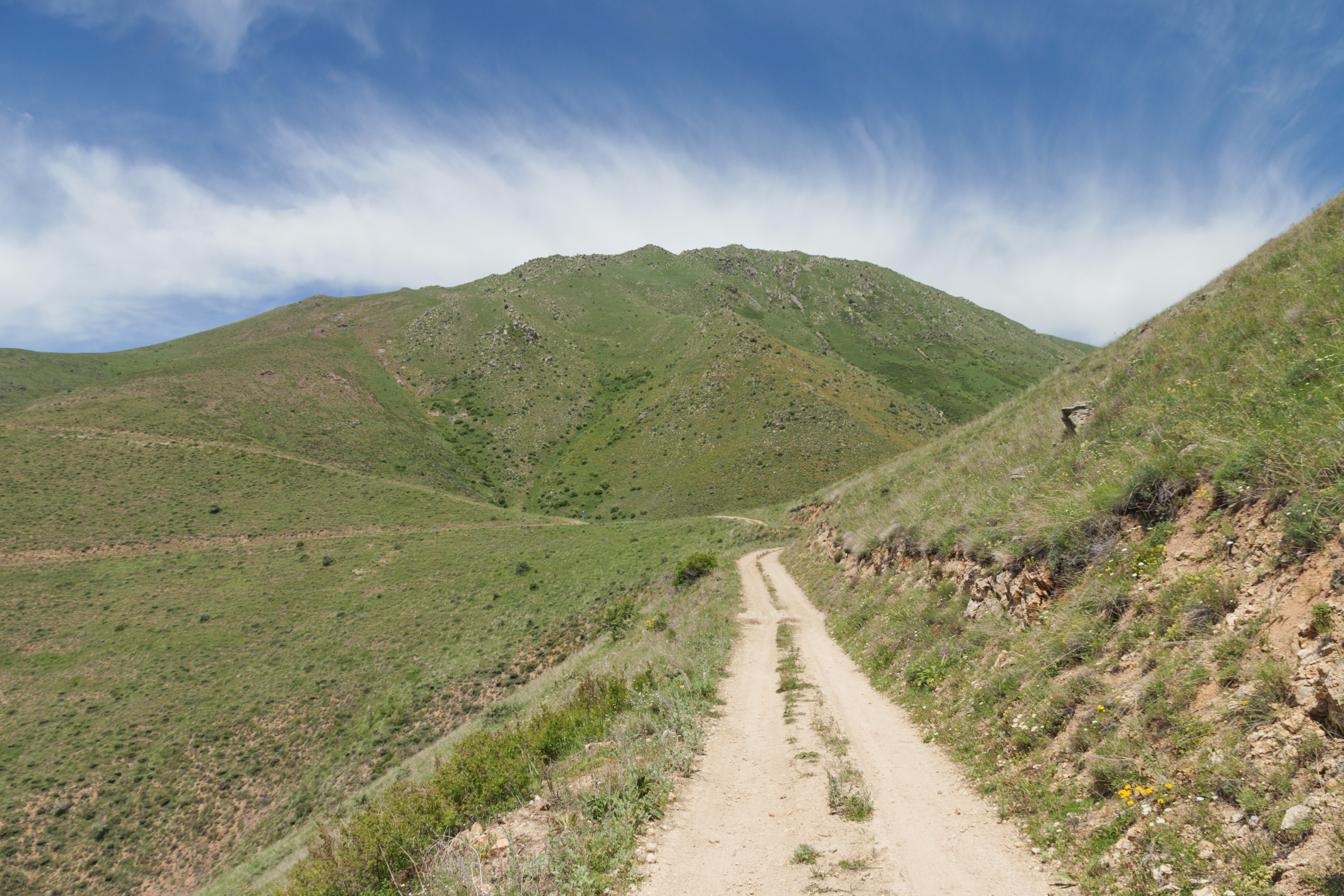 The views from the tourist route from Vernashen village to the Spitakavor monastery. Vayots Dzor Province, Armenia.